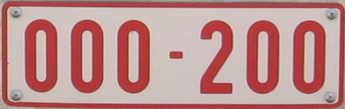 Belgian vehicle registration plate for vintage cars